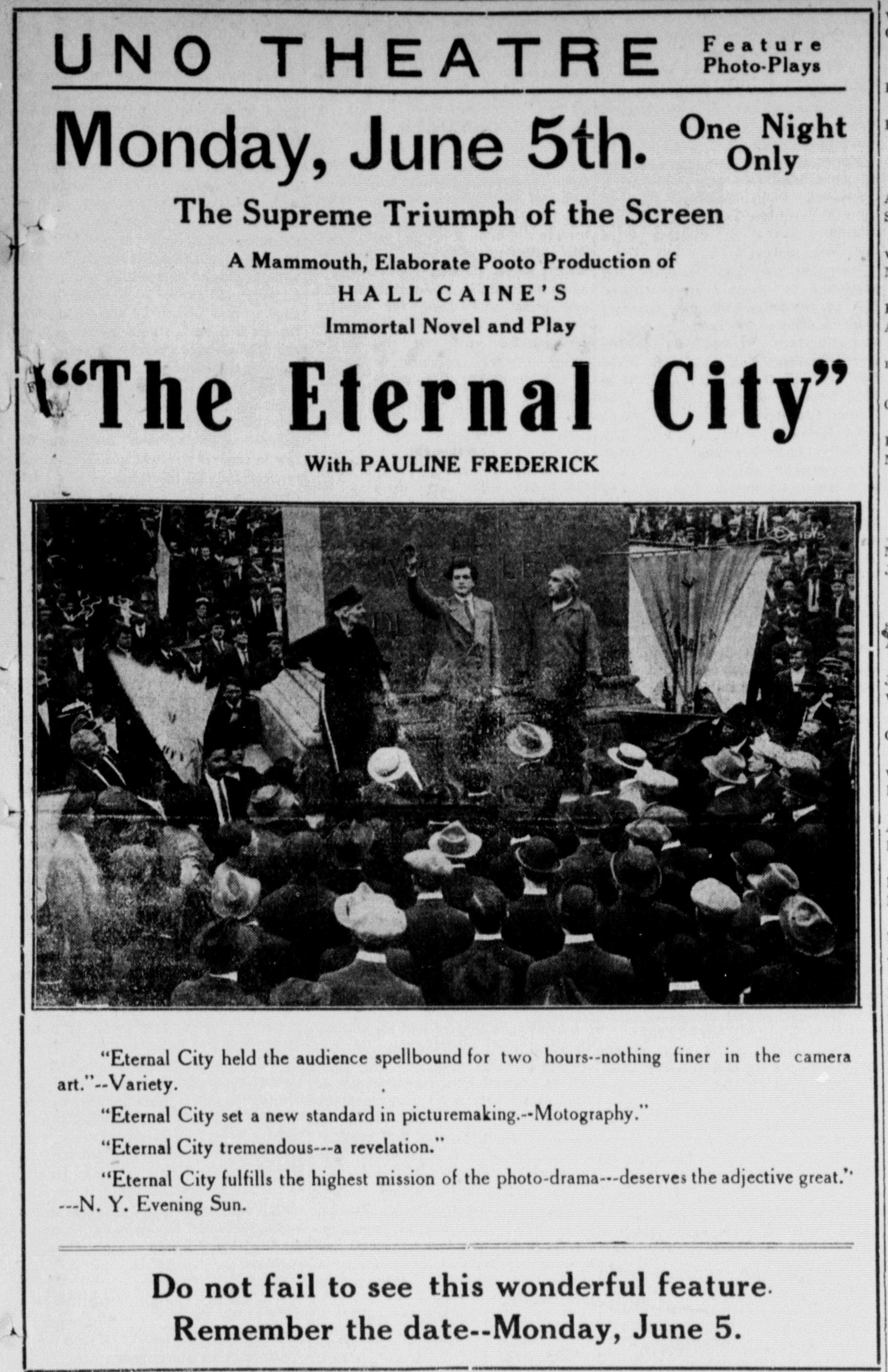 The Eternal City newspaper advert for the 1915 film